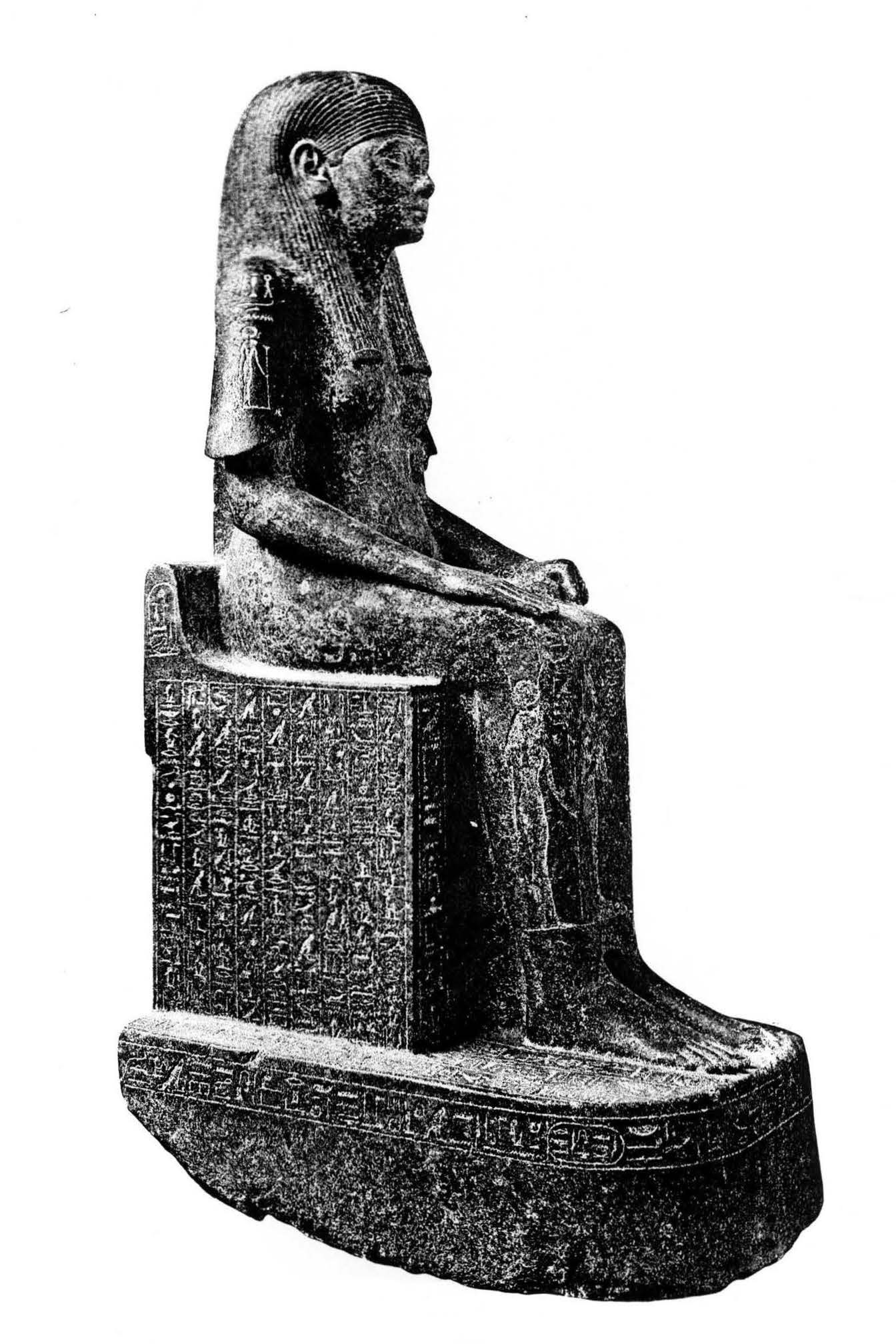 Sitting statue of Shepensopdet A, daughter of the High priest of Amun Nimlot C, himself son of pharaoh Osorkon II (his cartouche is visible). Granite, H 0,835m, 22nd Dynasty, Third Intermediate Period, found in Karnak cachette, May 22 1904, now in Cairo Museum (CG 42228 / JE 37383).